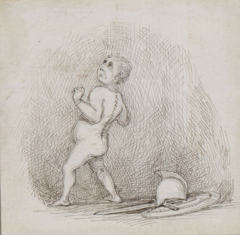 Examples of artwork on a variety of subjects and in a variety of styles by Francis Elizabeth Wynne from a sketchbook (ca. 420 drawings): mixed media, including watercolour, wash and, pen and ink.